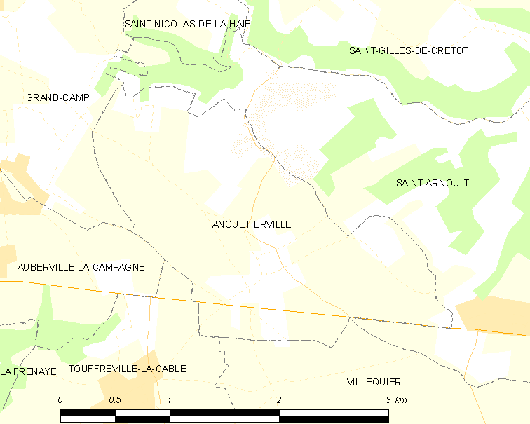 Map of French municipality Anquetierville